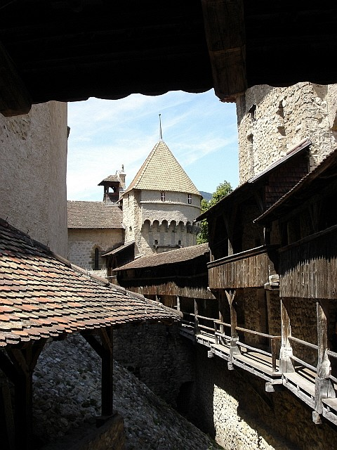 Chillon